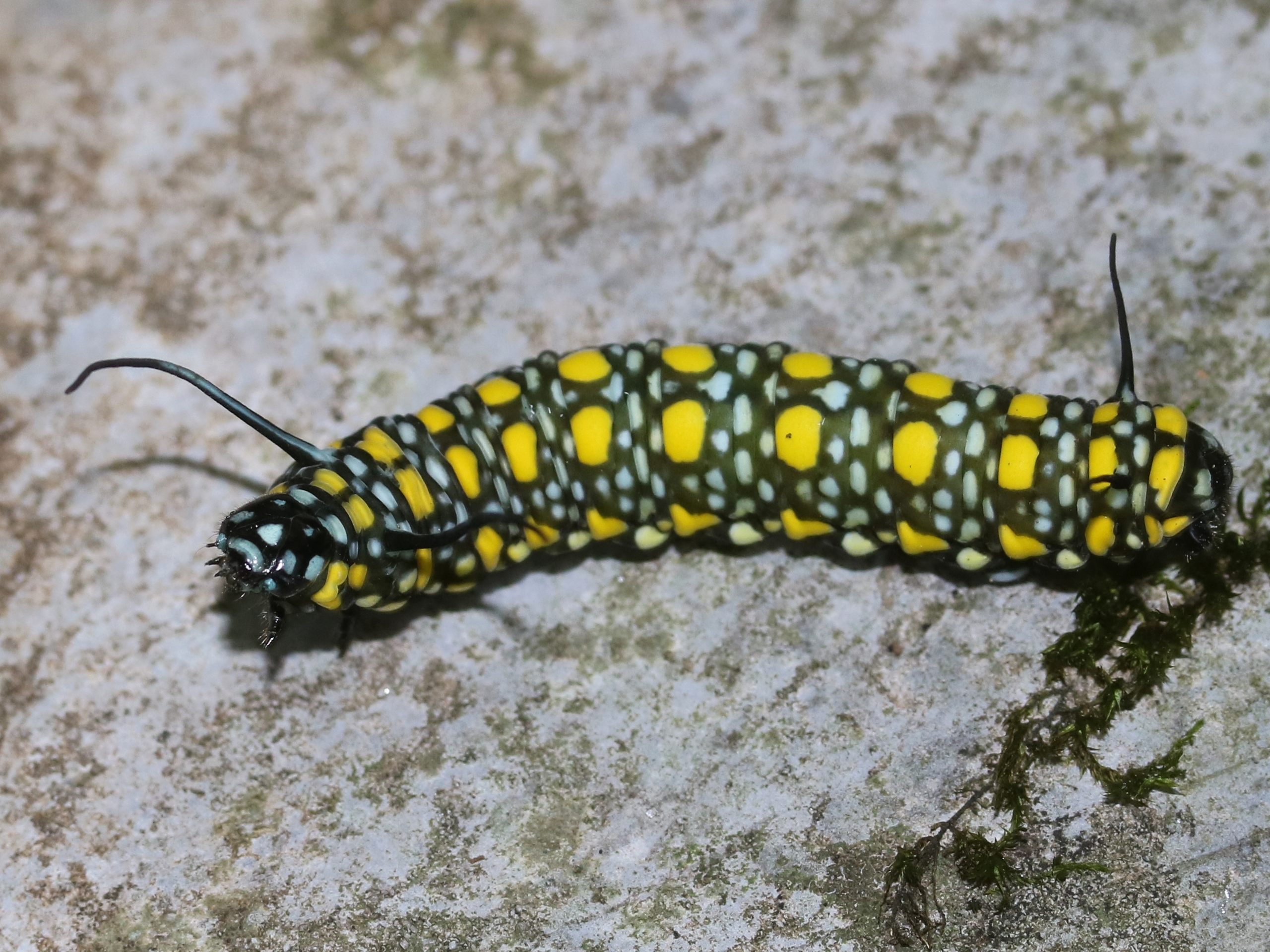 Caterpillar of Chestnut Tiger (Parantica sita) in Mount Fujiwara, Suzuka Mountains, Inabe, Mie prefecture, Japan